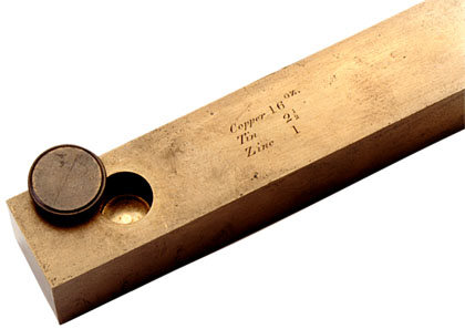 A close-up of the end of the standard yard of 1855 showing the engraving and the gold plug